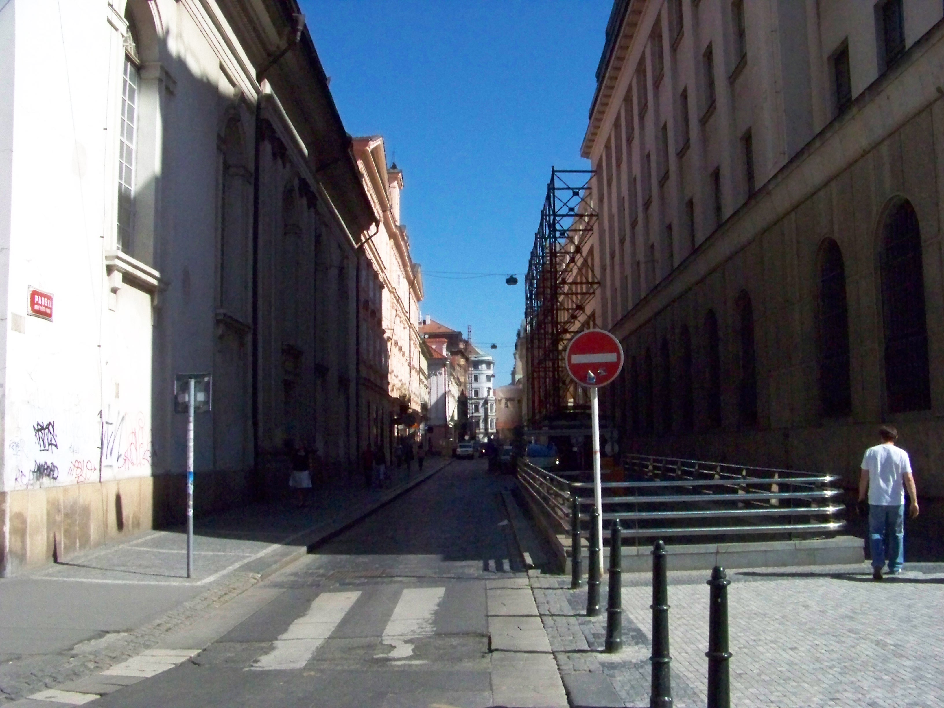 Prague-New Town, the Czech Republic. Na příkopě, underground garages and Holy Cross Church.